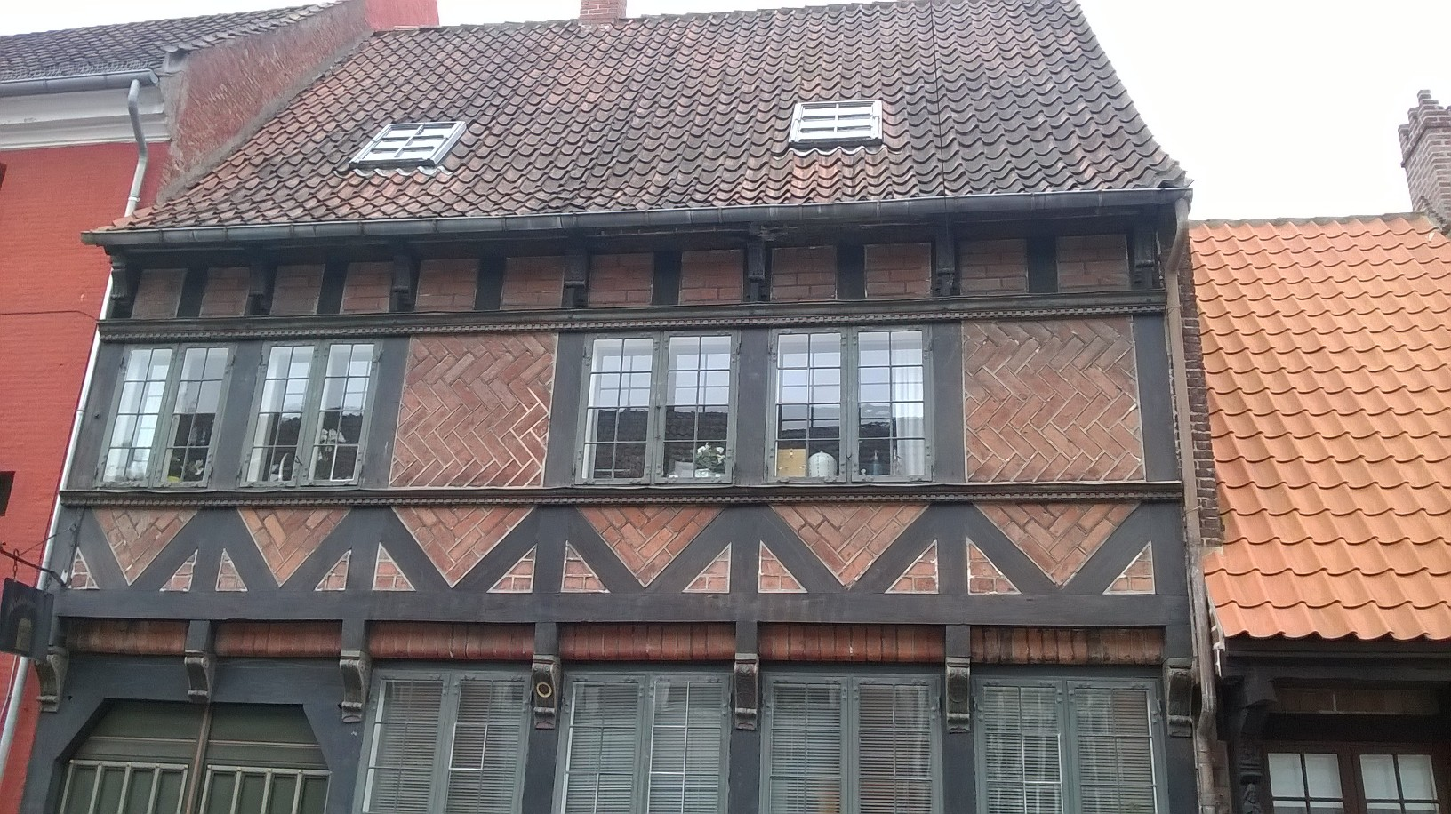 Ridderhuset i Riddegade.